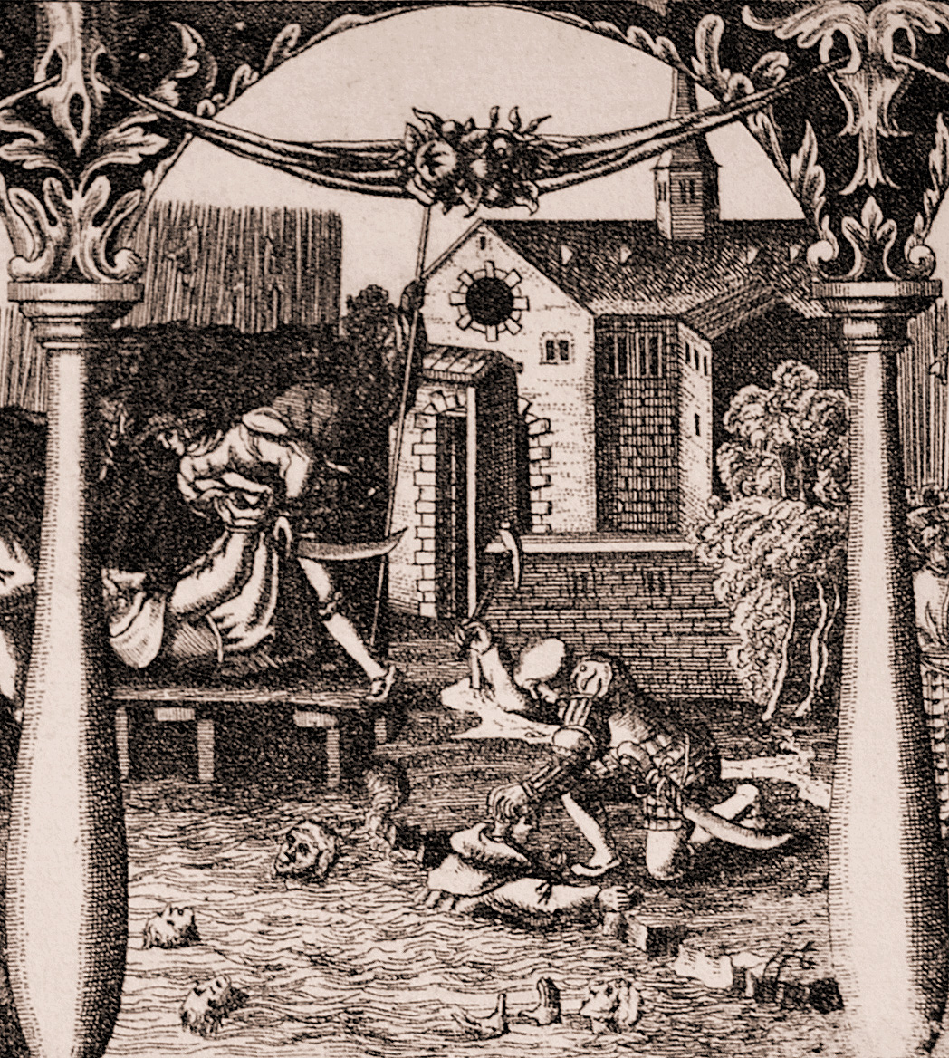 The killing of munchs in Nydala monastry in the year of 1521.